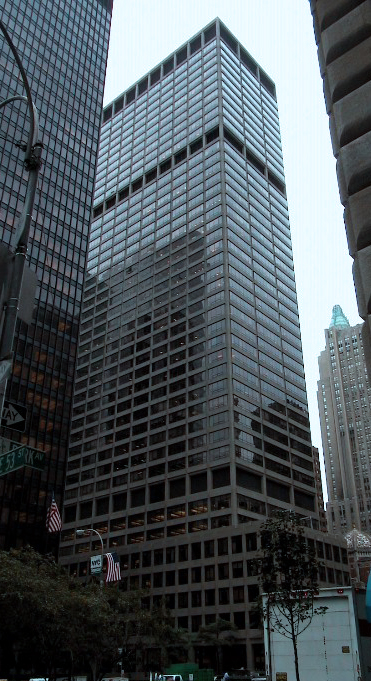 Headquarters of KPMG LLP, the United States-based member firm of KPMG International, at 345 Park Avenue, New York City.